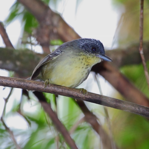 Spot-breasted Antvireo (male) at Intervales State Park